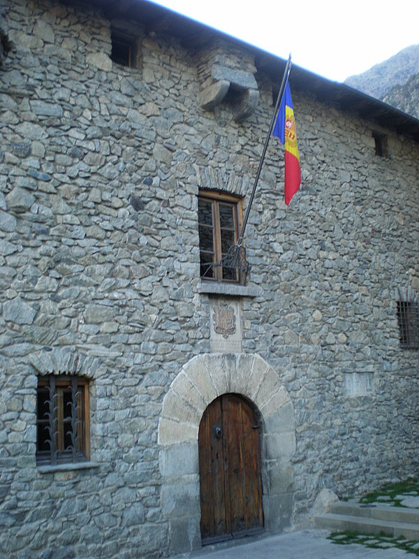 Facade of the Andorran parliament building, the Casa de la Vall